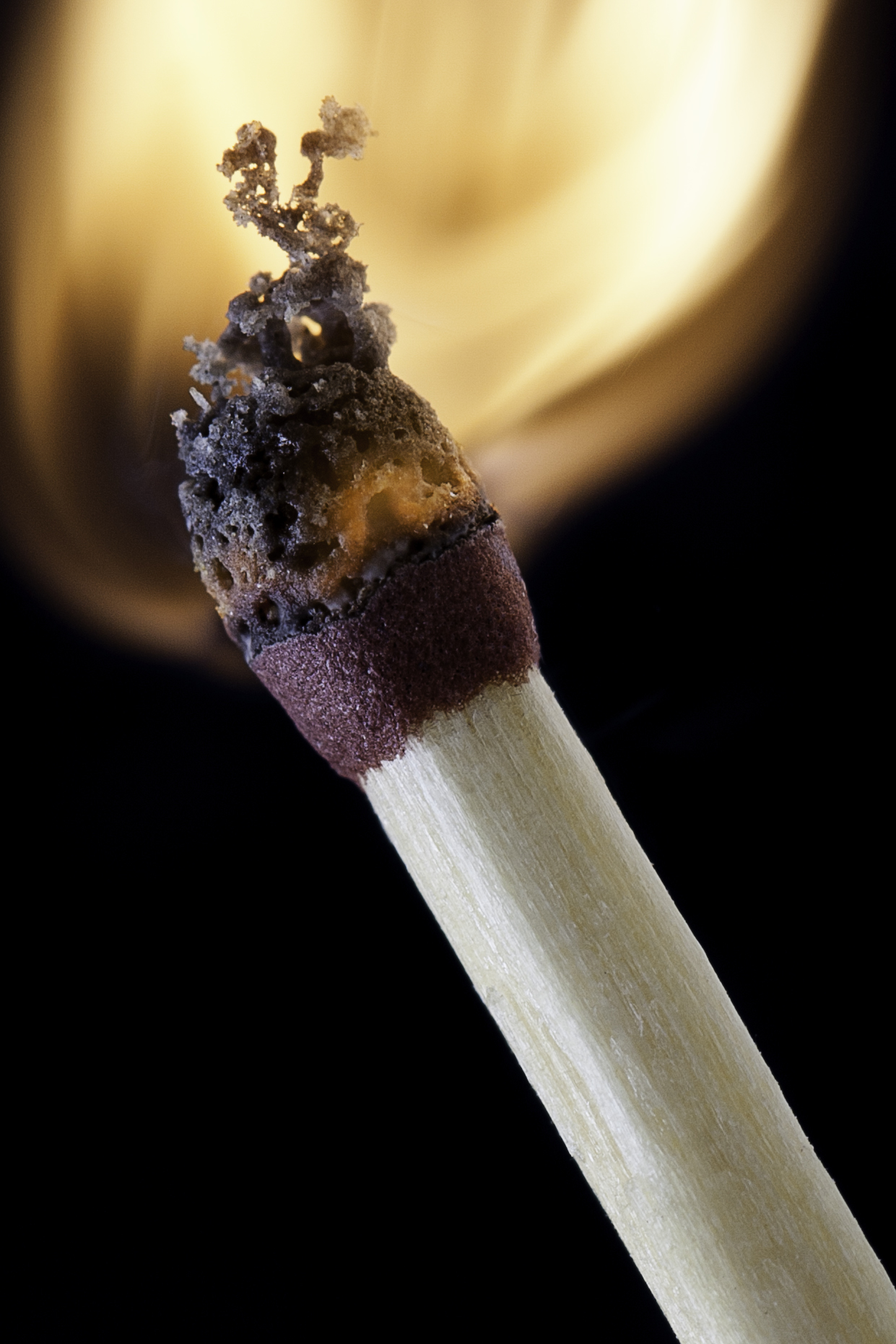 A match starts the combustion. This image shows the precise moment when half of the chemical reaction has already occurred, and the other half has not yet.